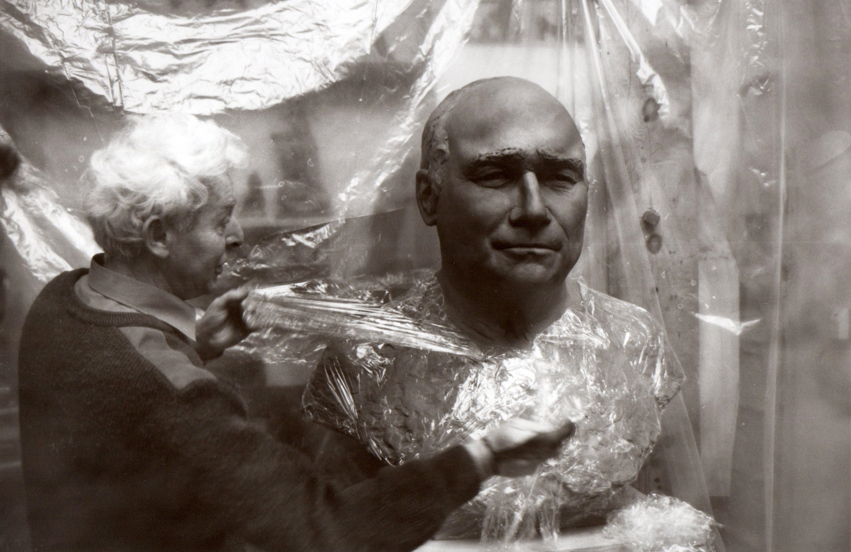 Denis Parsons unwrapping the clay maquette of Sir William Dugdale prior to casting.